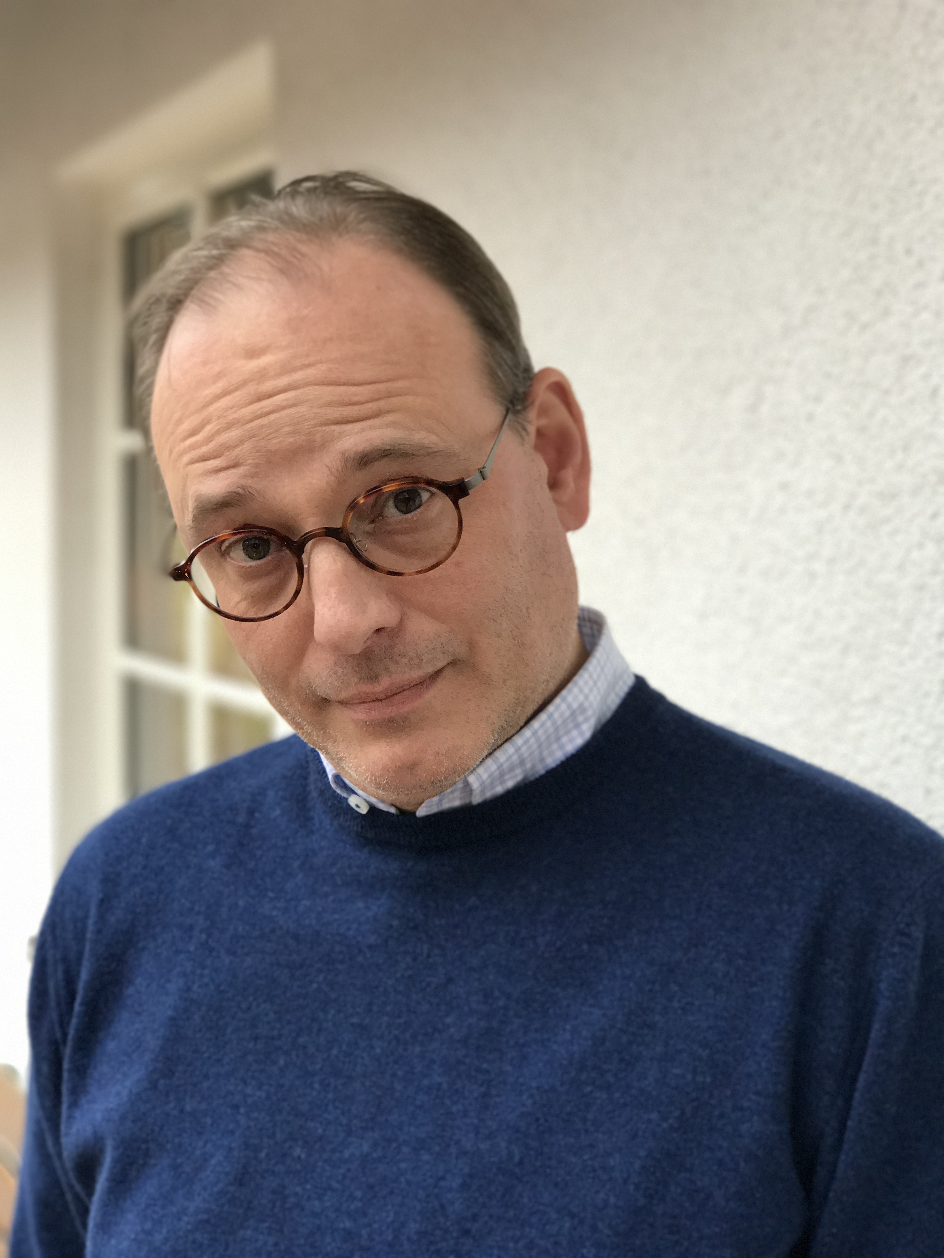 Picture at journalist and actor Rasmus Troedsson